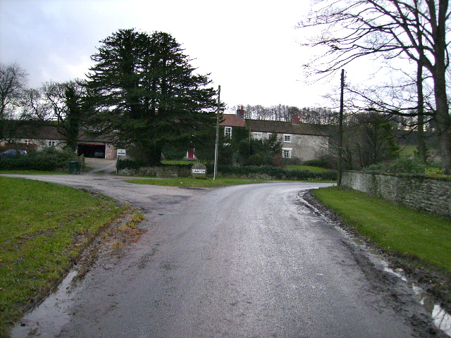 Road junction entering Cawton Village